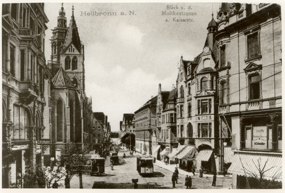 Kaiserstraße um 1900